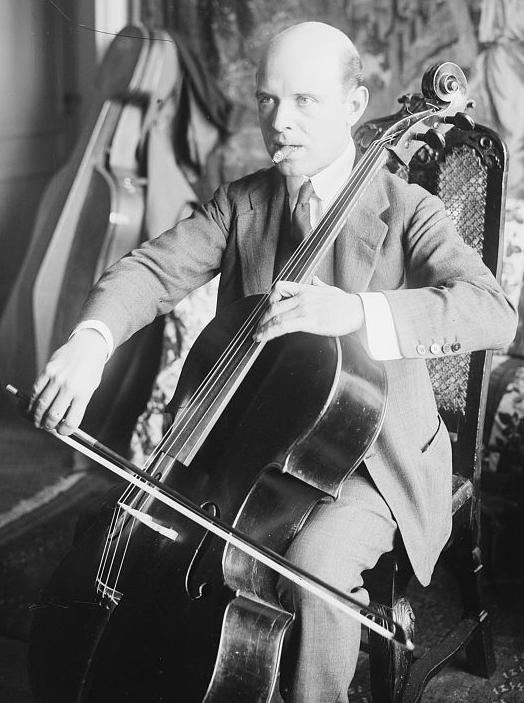 Spanish cellist and conductor Pablo Casals (1876-1973)